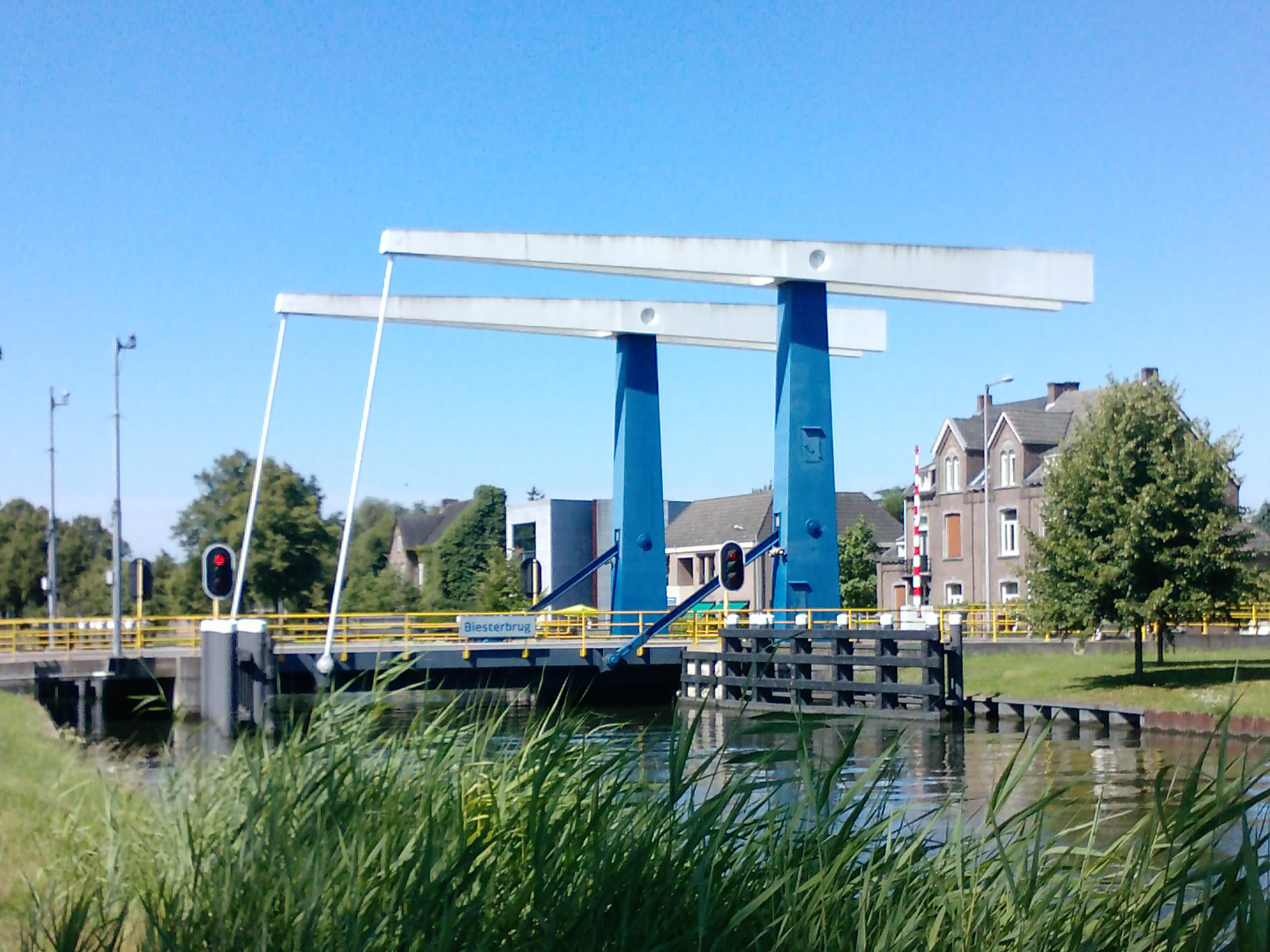 Bridge in Weert (Biesterbrug)